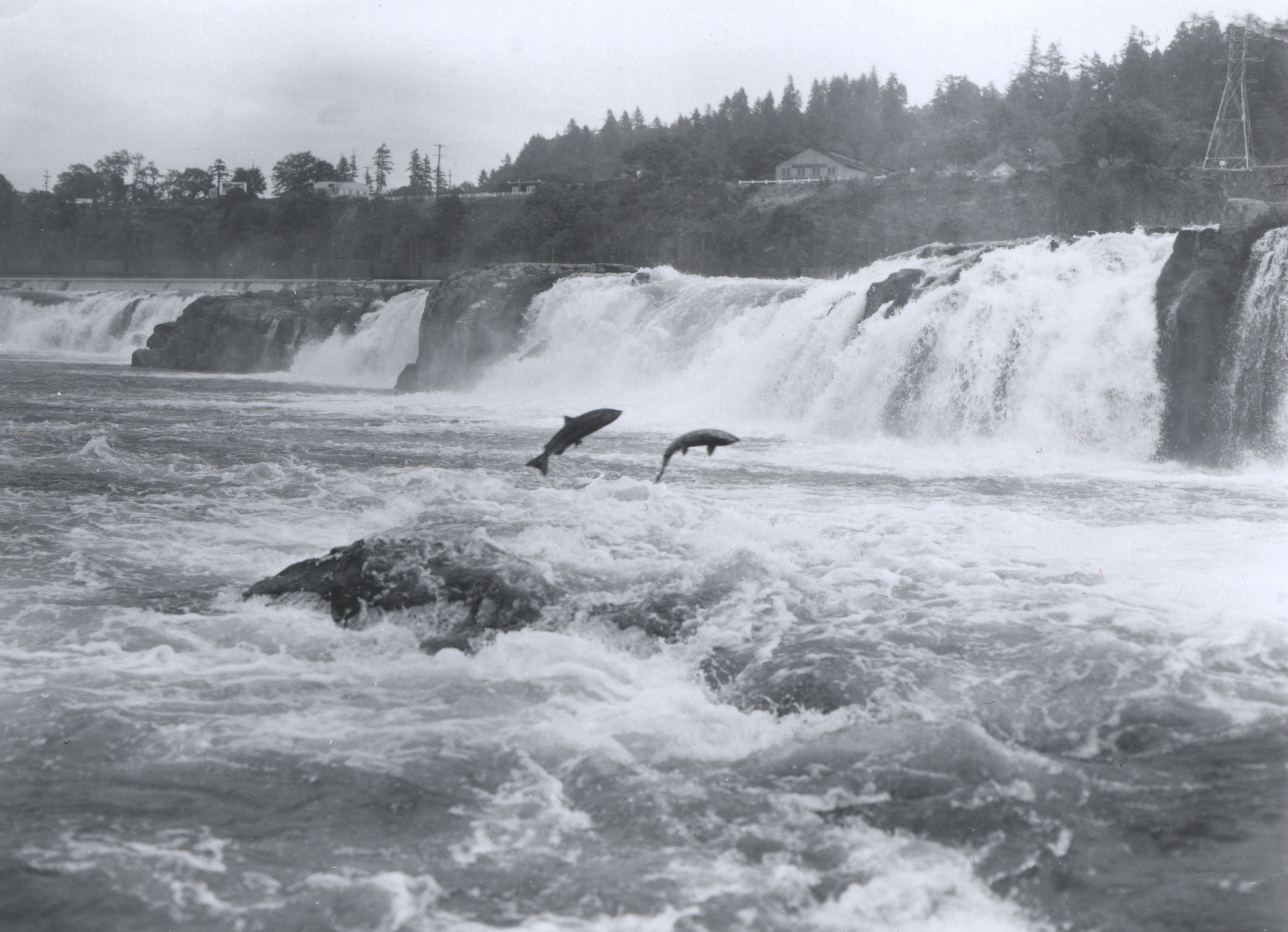 Salmon leaping at Willamette Falls Image ID: fish6624, NOAA's Historic Fisheries Collection Location: Oregon, Oregon City Photo Date: 1950 June 27